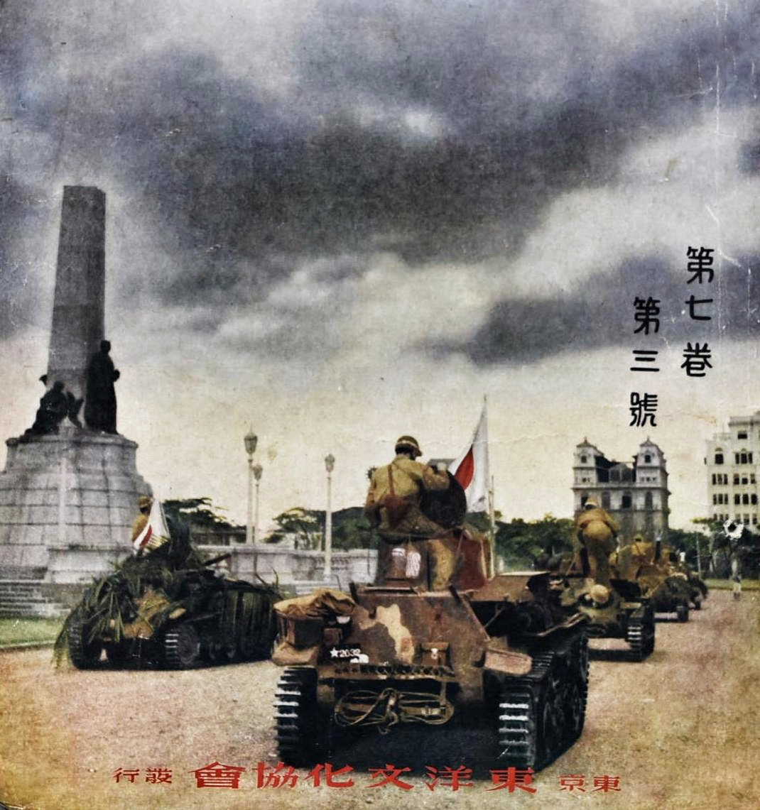 Japanese Army Tankettes in Manila, Philippines 1942